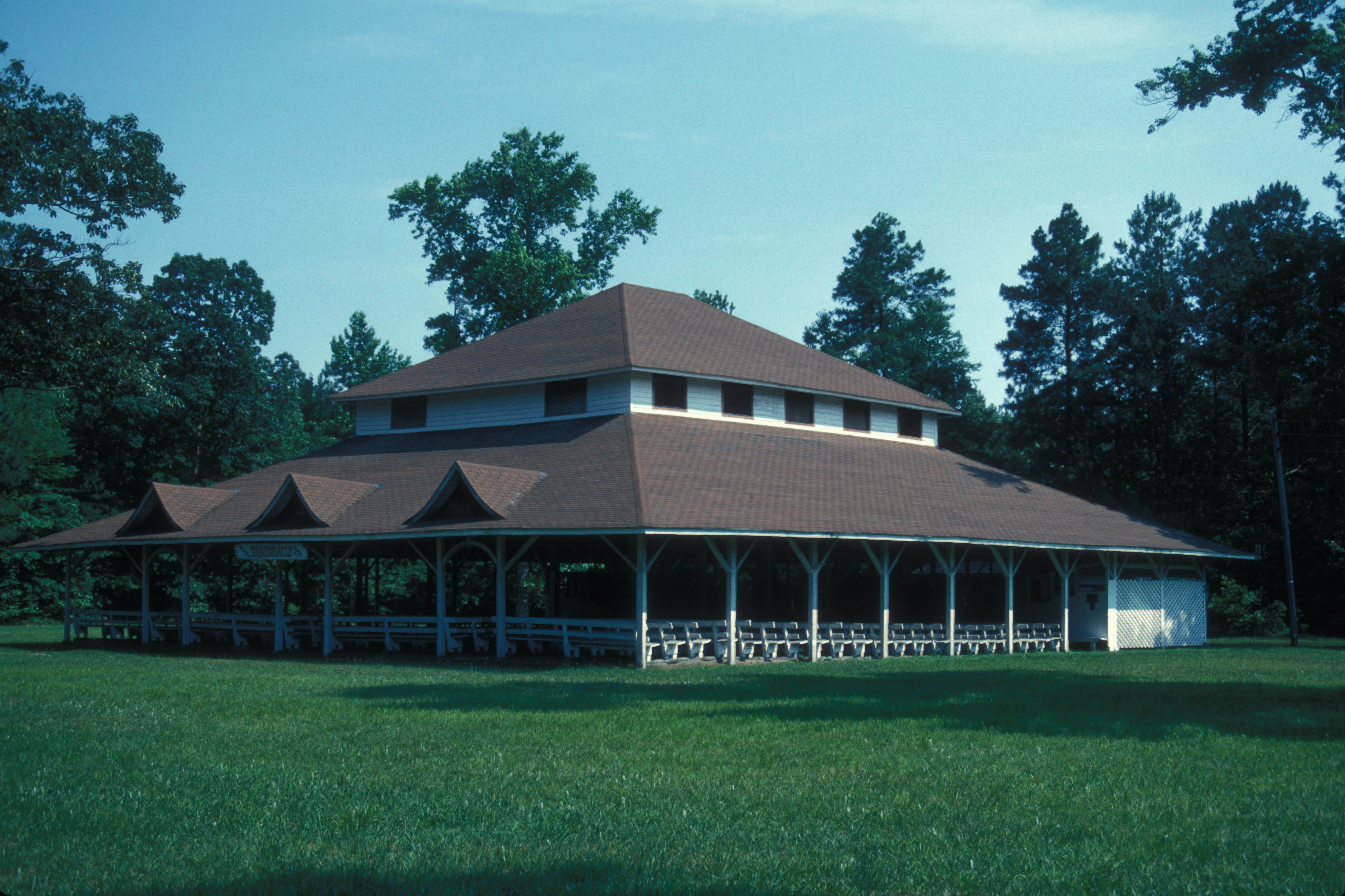 OUTDOOR TABERNACLE FAVORED BY THE METHODISTS FROM 1720 IN THEIR SUMMER RETREATS